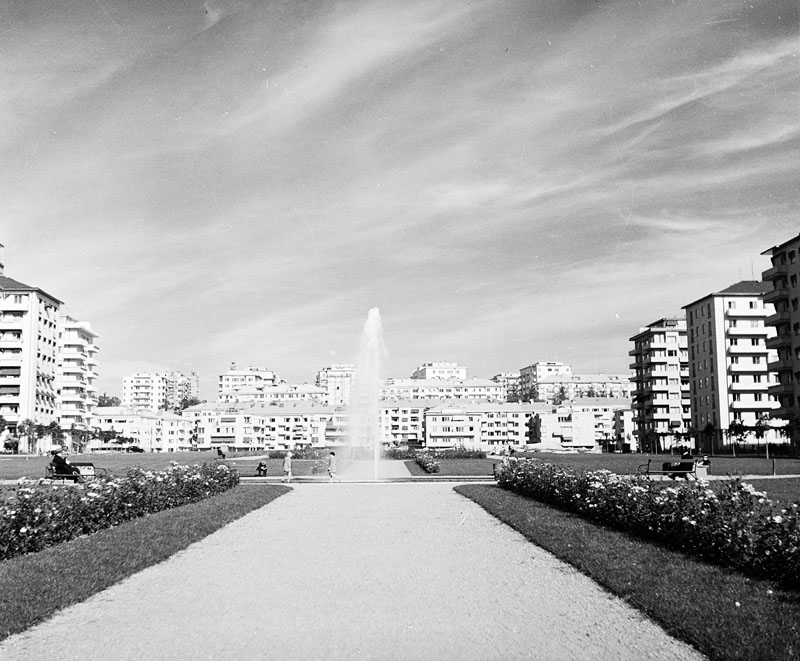 Tessinparken, view towards Askrikegatan.